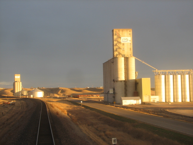 Shelby, Mt Grain Elevators